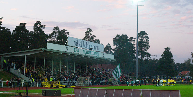 Wiklöf Holding Arena in Mariehamn, Åland Islands, Finland. The main stand was completely rebuilt during the following year. The Veikkausliiga (Finnish Premier) game between IFK Mariehamn vs. KuPS (yellow) ended 2-4.